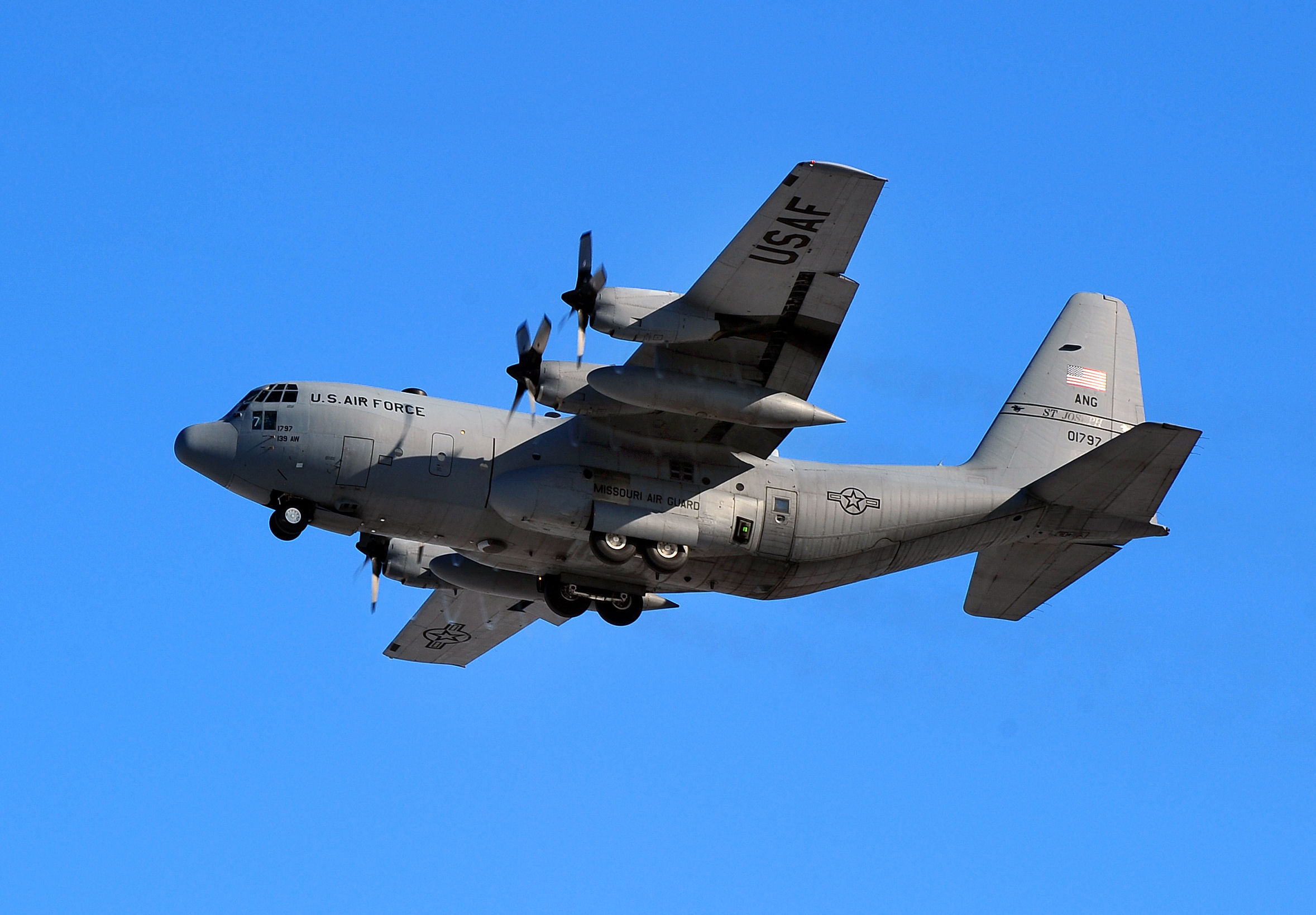 180th Airlift Squadron Lockheed C-130H Hercules 90-1797